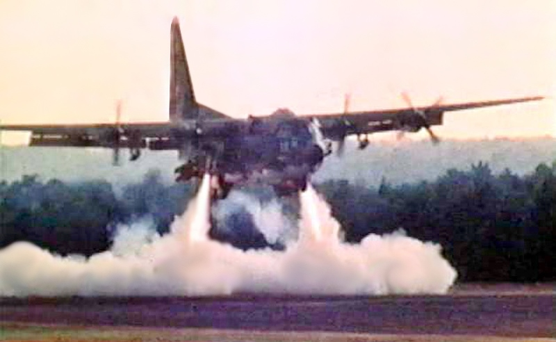 Credible-Sport-Prototype C-130